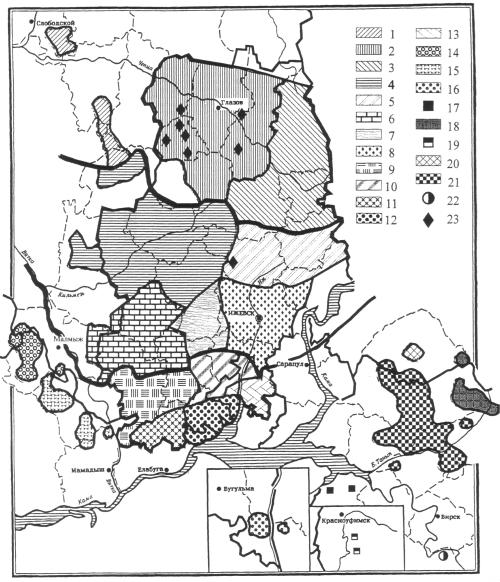 description on huwiki (by Szerkesztő:Eino81): Насибуллин Р.Ш. Удмуртские диалекты - идеальный объект для лингвогеографических исследований // Studia geographiam linguarum pertinentia. Eesti keele instituudi toimetused, 6. Tallinn, 2000. P. 73. licence on huwiki: public domain